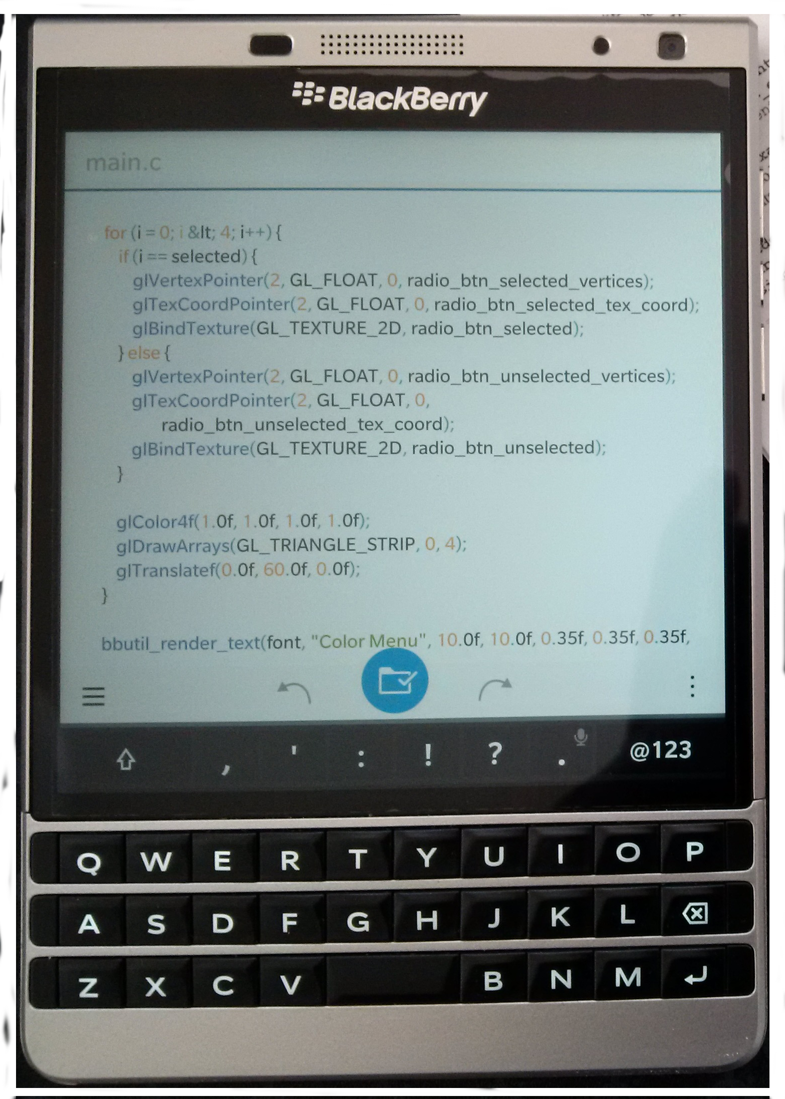 BlackBerry Passport Silver Edition displaying a section of code in the C Programming Language